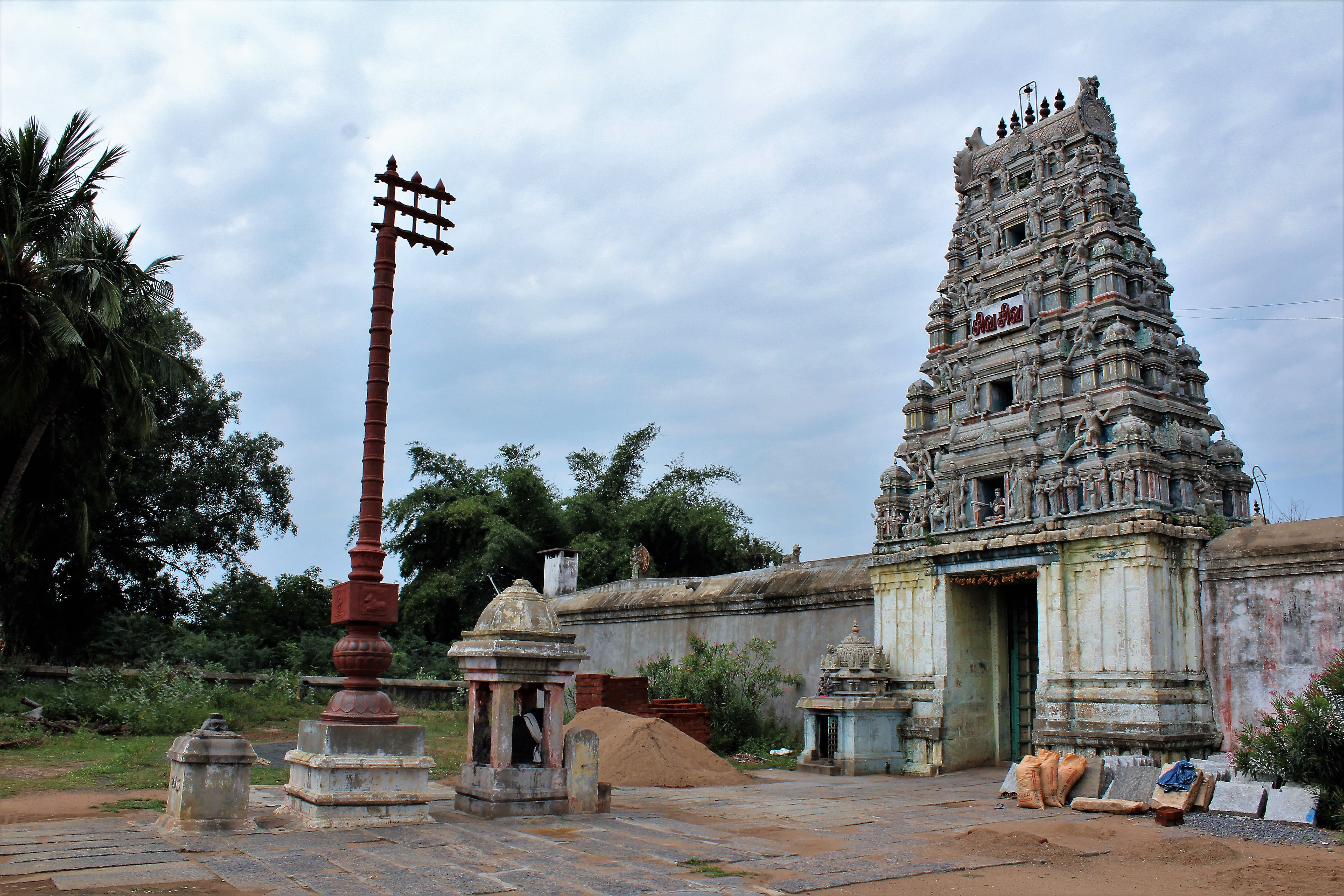 Thirukkumaresar Temple